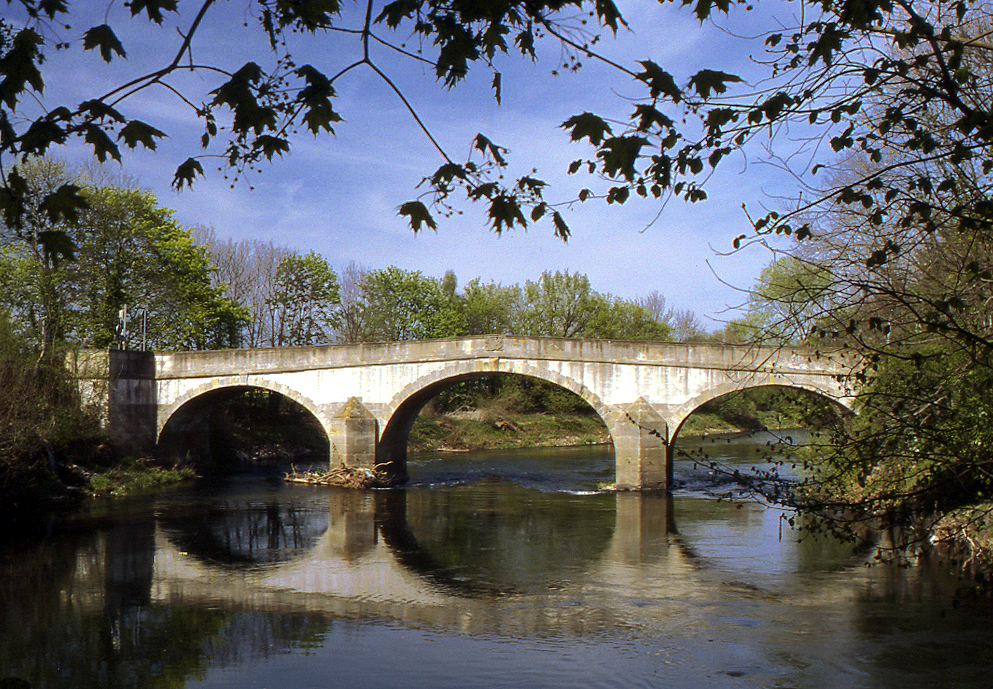 Calenberg bridge near Schulenburg in the town Pattensen, Lower Saxony, Germany. The bridge is build in the year 1751.